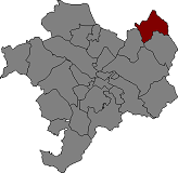 Location of Sant Llorenç d'Hortons in Alt Penedès